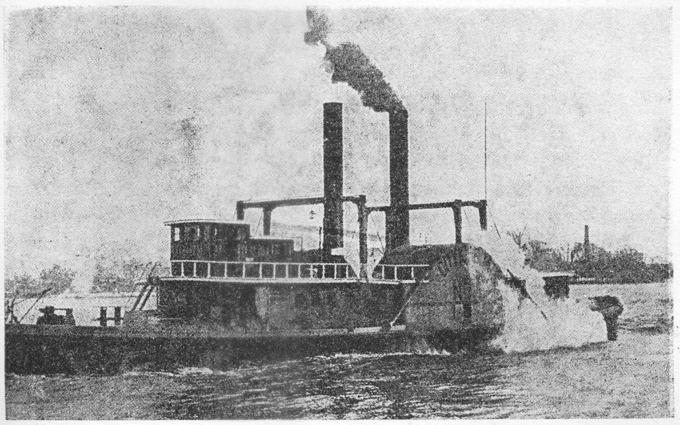 Paddle steamer City Ice.boat N:o 1 built 1837 for traffic on the Delaware in Philadelphia. Held to be the first steam driven vessel in the world originally built with the intention to be able to navigate in ice.